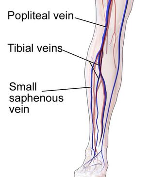 this image is a derivative of the image found here on commons